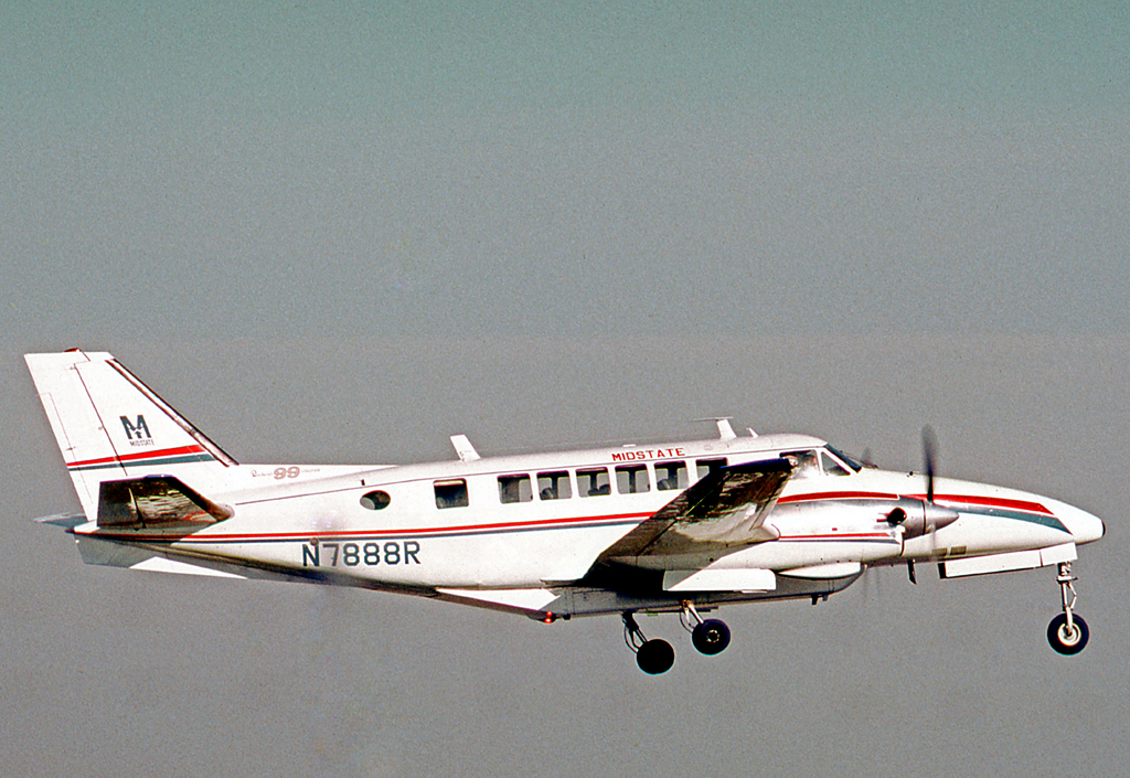 Beech 99 Airliner N7888R of Midstate Airlines landing at Chicago O'Hare Airport in 1973